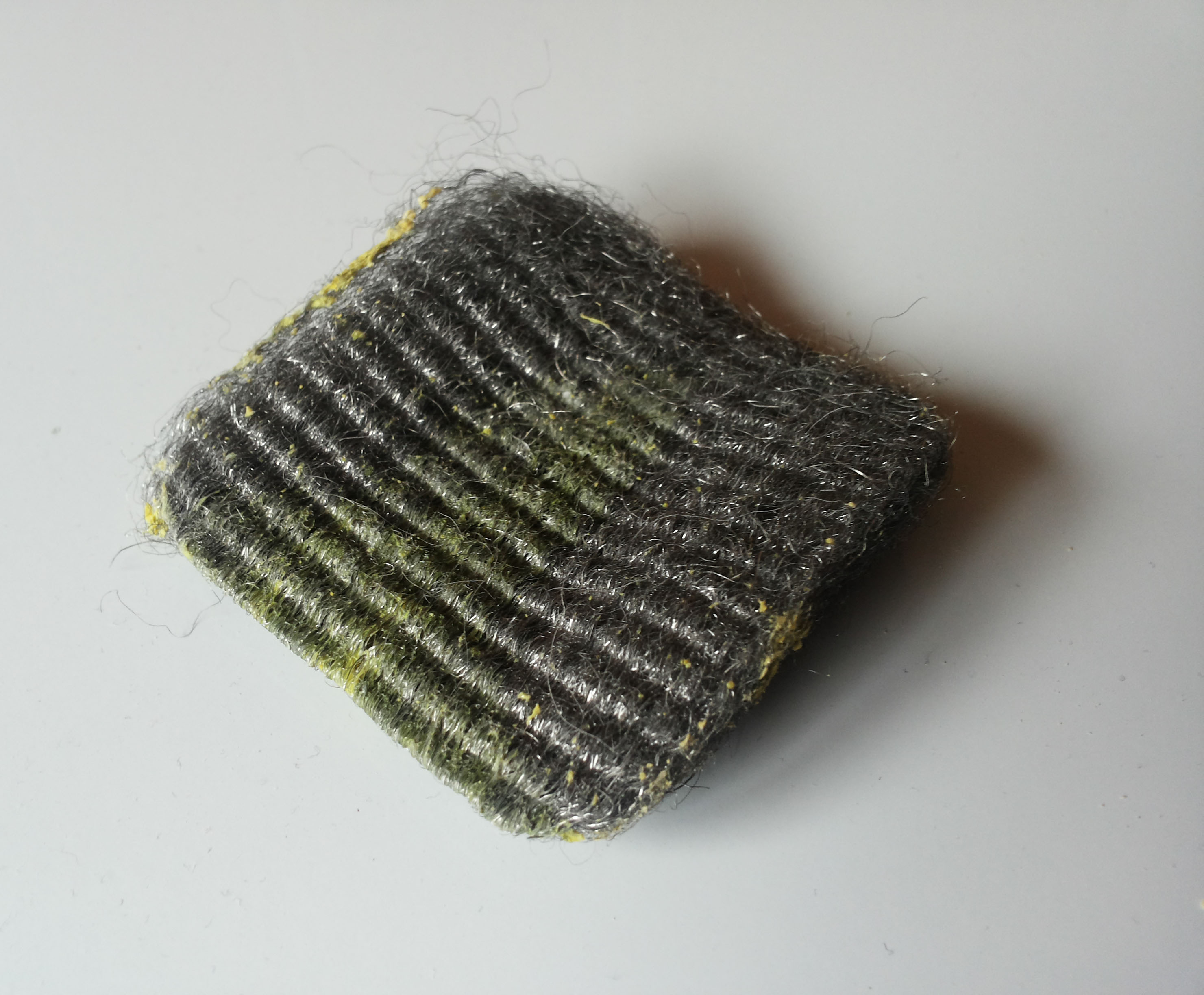 Soap-impregnated steel wool pad